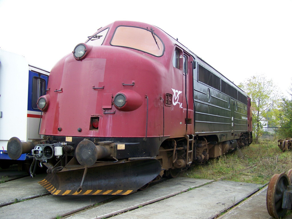 Vestsjællands Lokalbaner's MY 105 (former DSB MY 1145) seen on the railways workshops in Holbæk during "Åbent Hus" (Open House)